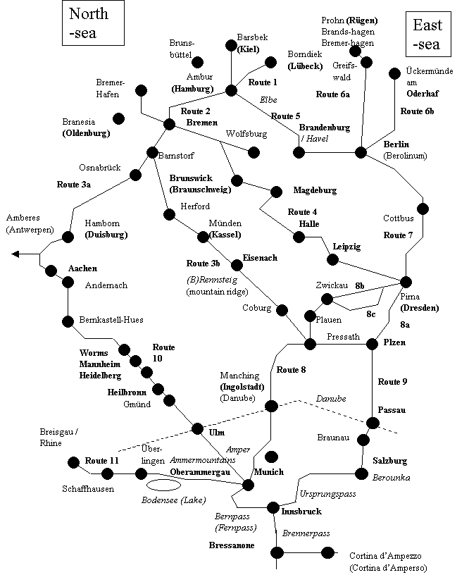 This map has been derived from a list of settlements and towns with "burner"-attributes in their names. For further details see the above manuscript.